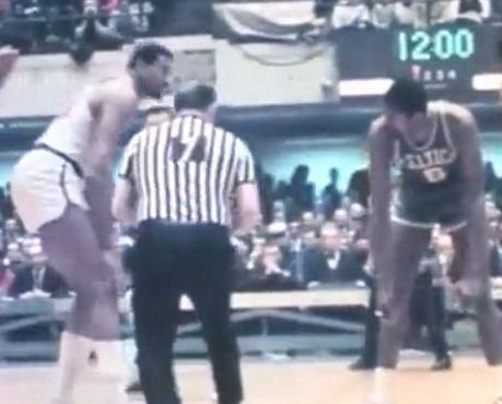 Bill Russell and Wilt Chamberlain and Referee Norm Drucker, Opening Tip Game 5 1967 Eastern Division Playoffs